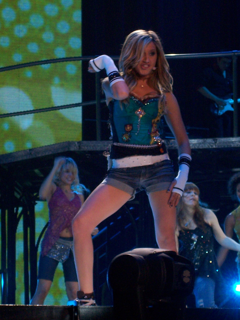 He Said She Said